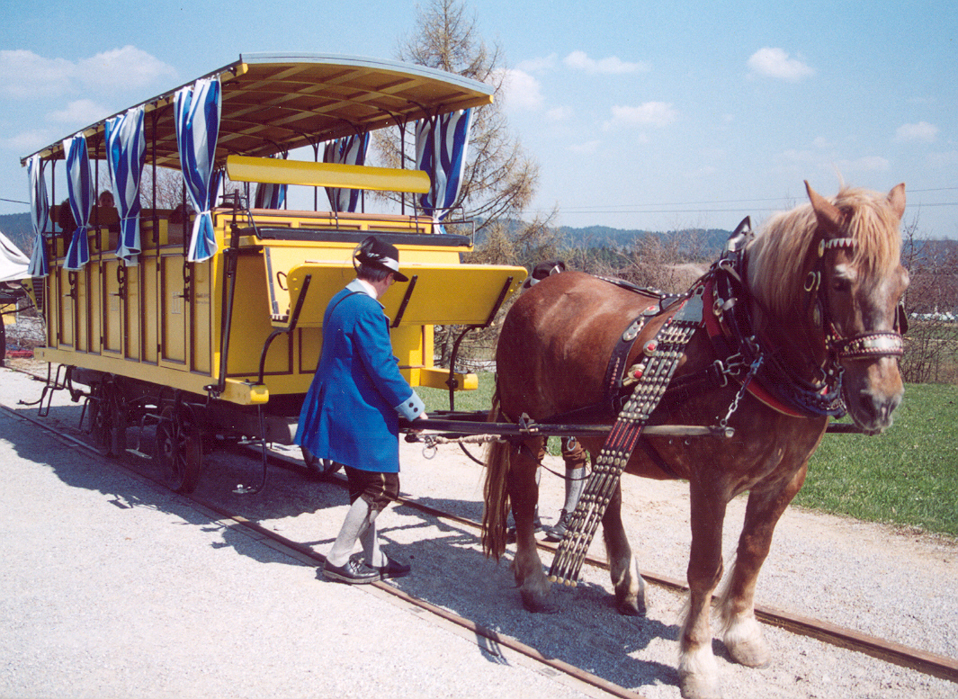 Austrian heritage railway, reconstructed part of České Budějovice - Linz railway, first public railway in continental Europe. Copy of original wagon Author:Stanislav Jelen shotted by Nikon F60 + Voigtlanger 28-105/1:2.8-105